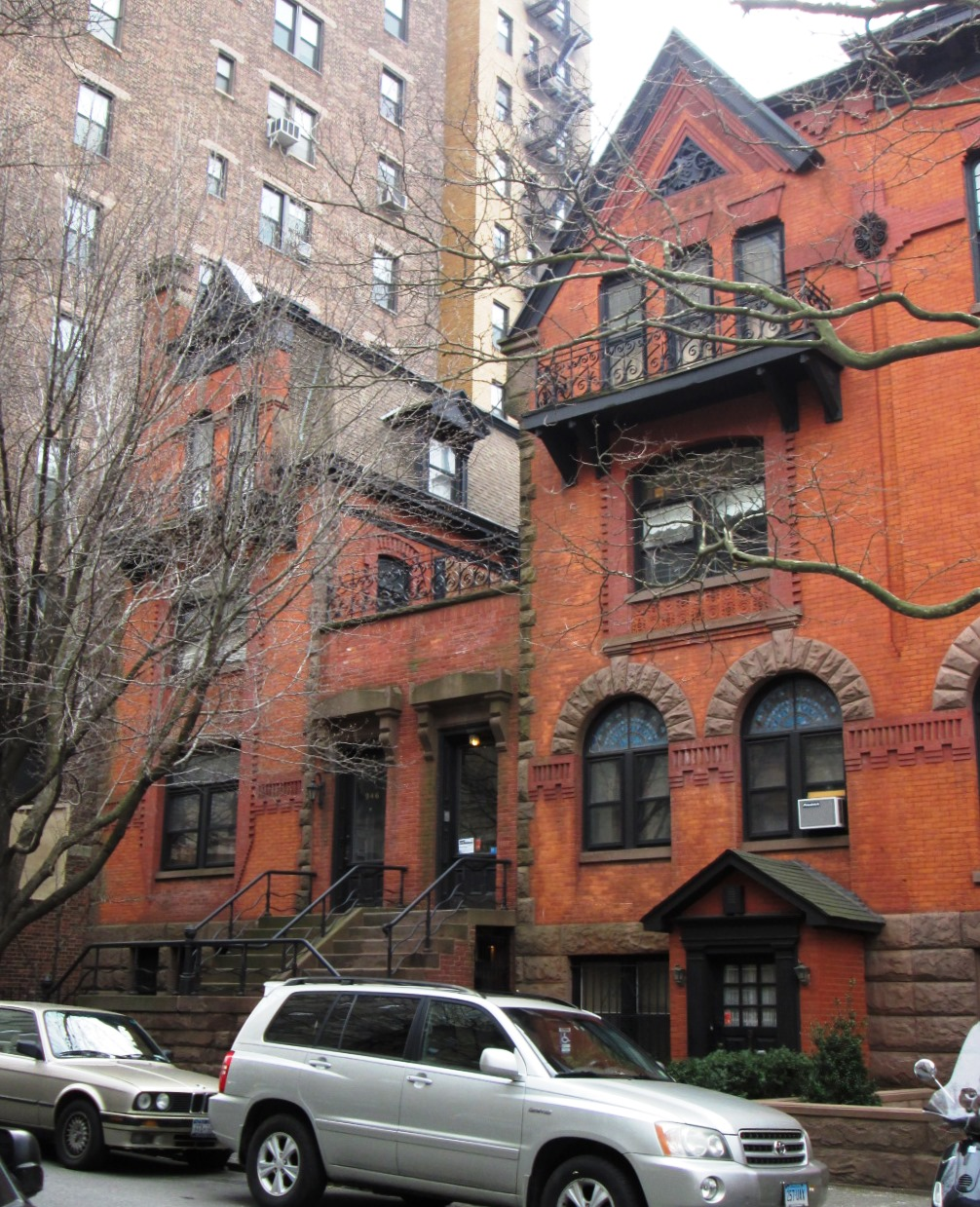 944 (right) - 946 (left) President Street bteween 8th Avenue and Prospect Park West in the Park Slope neighborhood of Brooklyn, New York City are two houses in the Queen Anne style with some Romanesque Revival detailing, designed by Charles T. Mott as an ensemble with 940 & 942, which was also intended to include the lots at 936 and 938. #944 & 946 were built in 1886; the date of construction of the other pair is unknown, although alterations were made to them in 1890. They are located in the Park Slope Historic District. (Source: "Park Slope Historic District Designation Report")